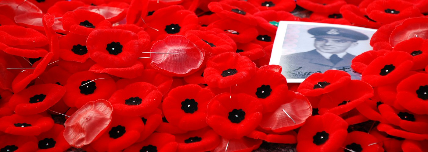 commemorative poppies laid at the Tomb of the Unknown Soldier